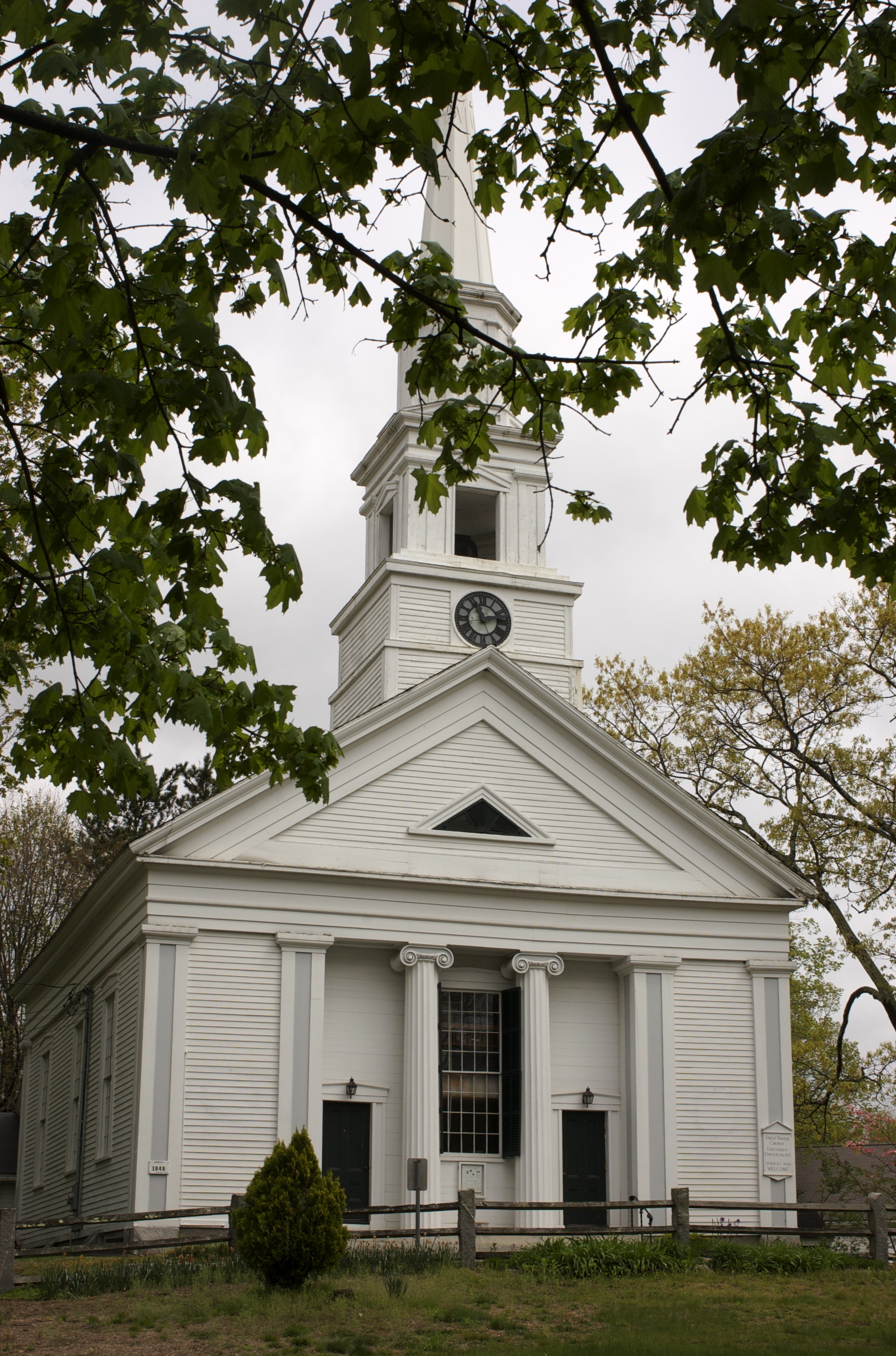 First Parish Unitarian Universalist church in Stow, Massachusetts. Built 1848.